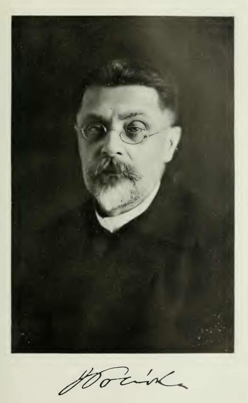 Jiří Polívka with signature